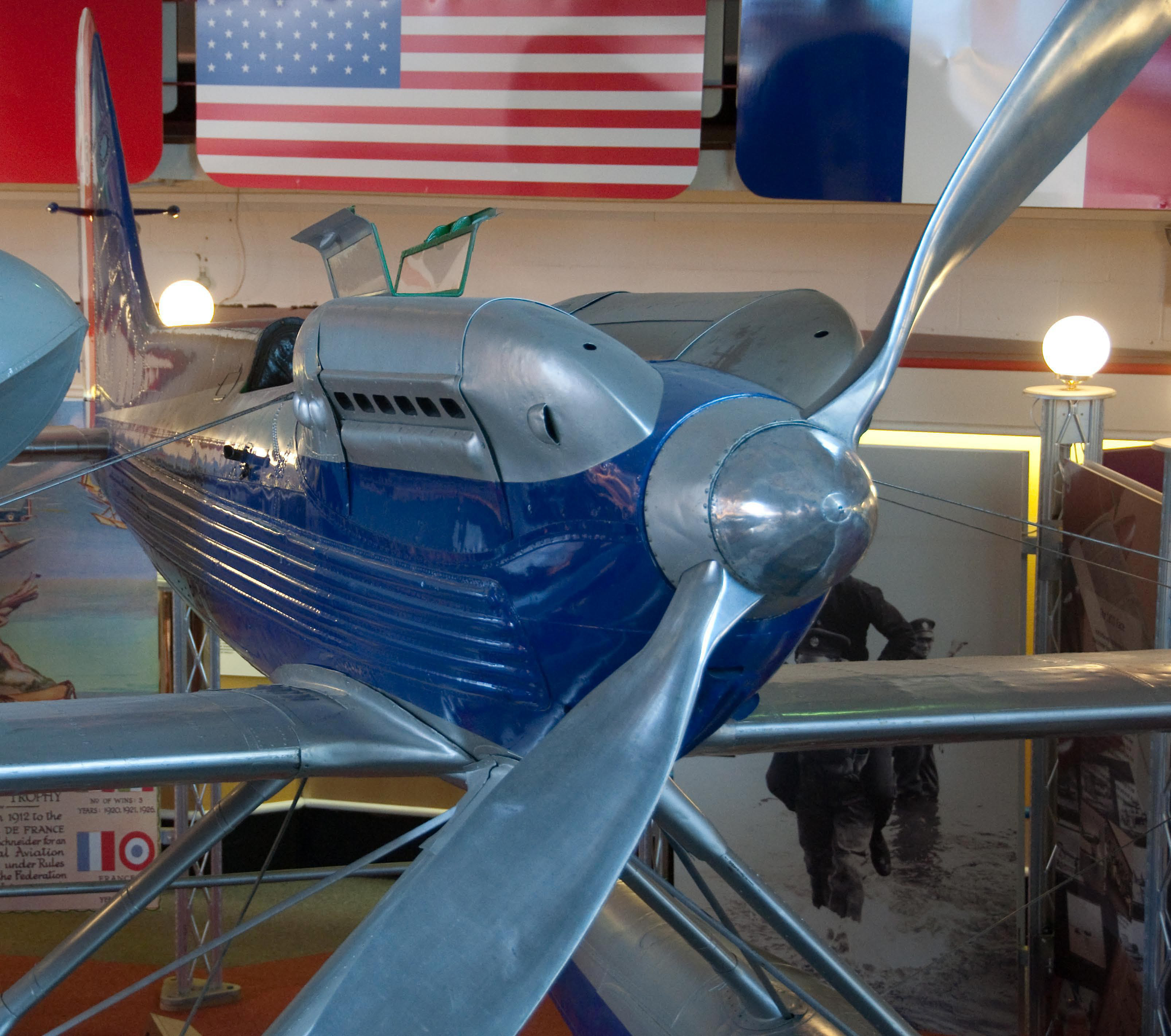 A view of the propeller, engine nacelle and exhausts!